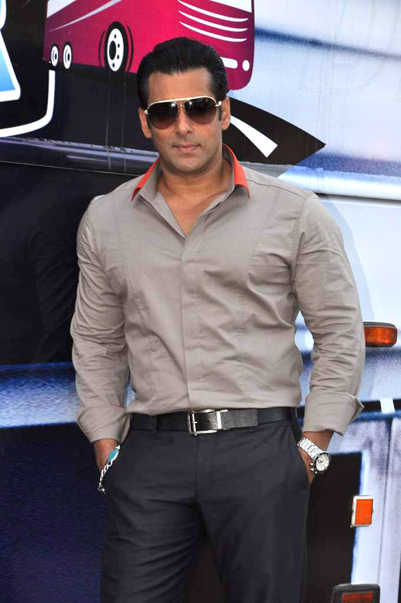 Salman Khan flags off Bigg Boss Tour